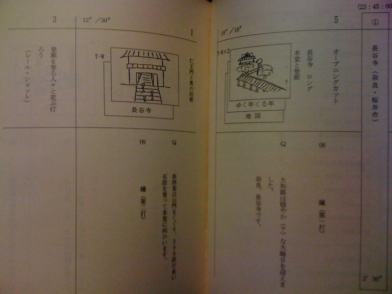 A script of NHK's yukutoshi Kurutoshi